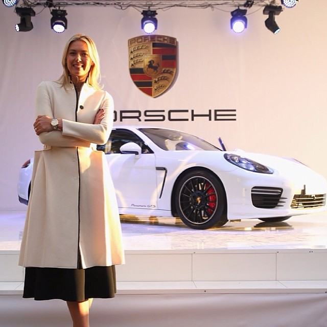 Maria Sharapova present Porsche Panamera GTS